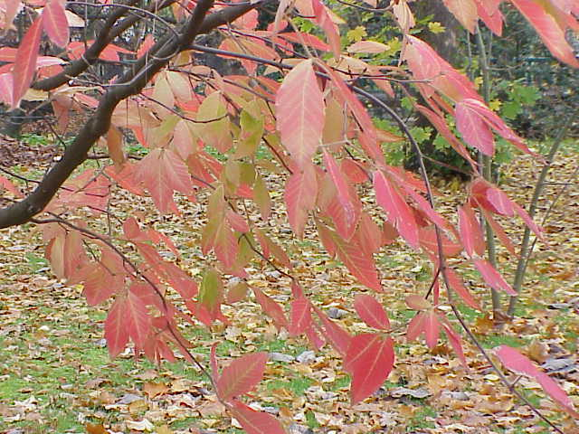 Species: Acer maximowiczianum Family: Aceraceae Image No. 2